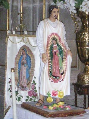 Statue of St. Juan Diego CuauhtlatoatzinChurch of San Juan Bautista, Coyoacán, México DF